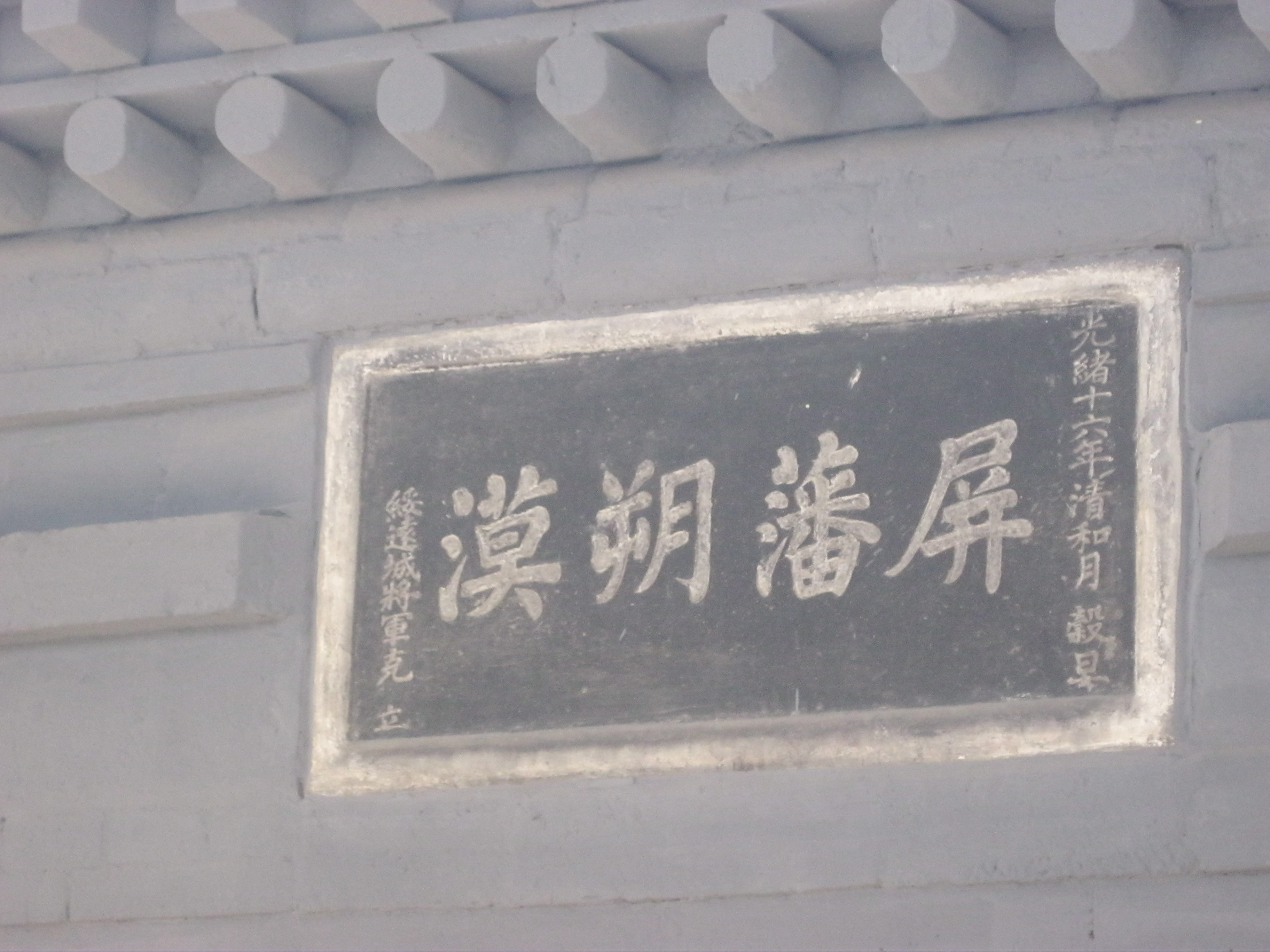 The words on the spirit screen